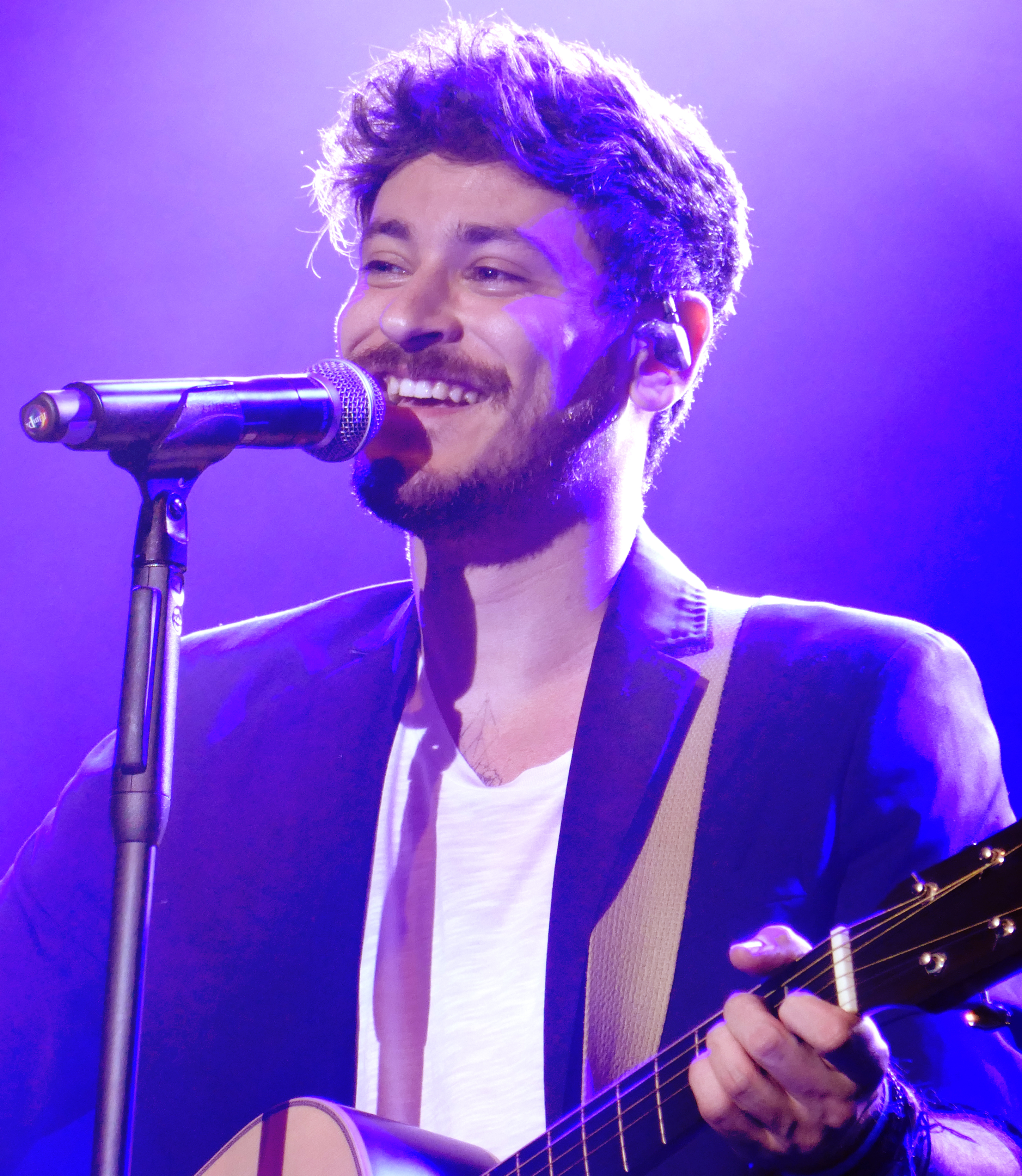 Cepeda playing a guitar at the closing concert of his Principios Tour in Figueres (Girona), on January 25th, 2020